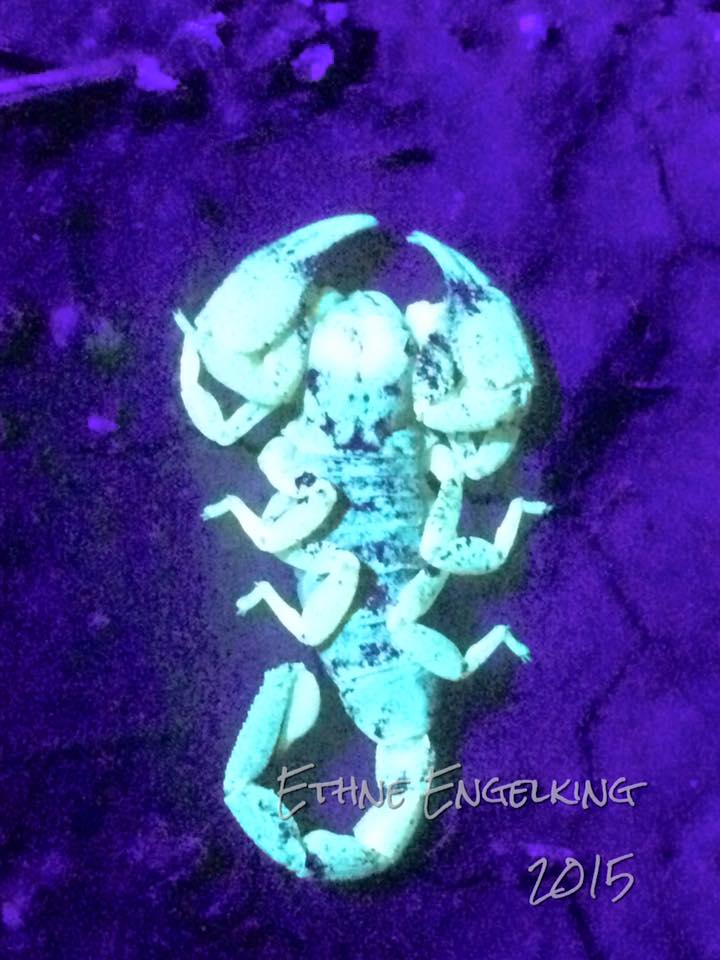 Opistophthalmus setifrons - Otjiwarongo, Namibia